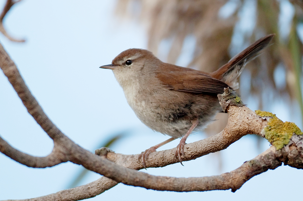 Cetti's Warbler Cettia cetti. Taken in Albufera, Mallorca (Spain)